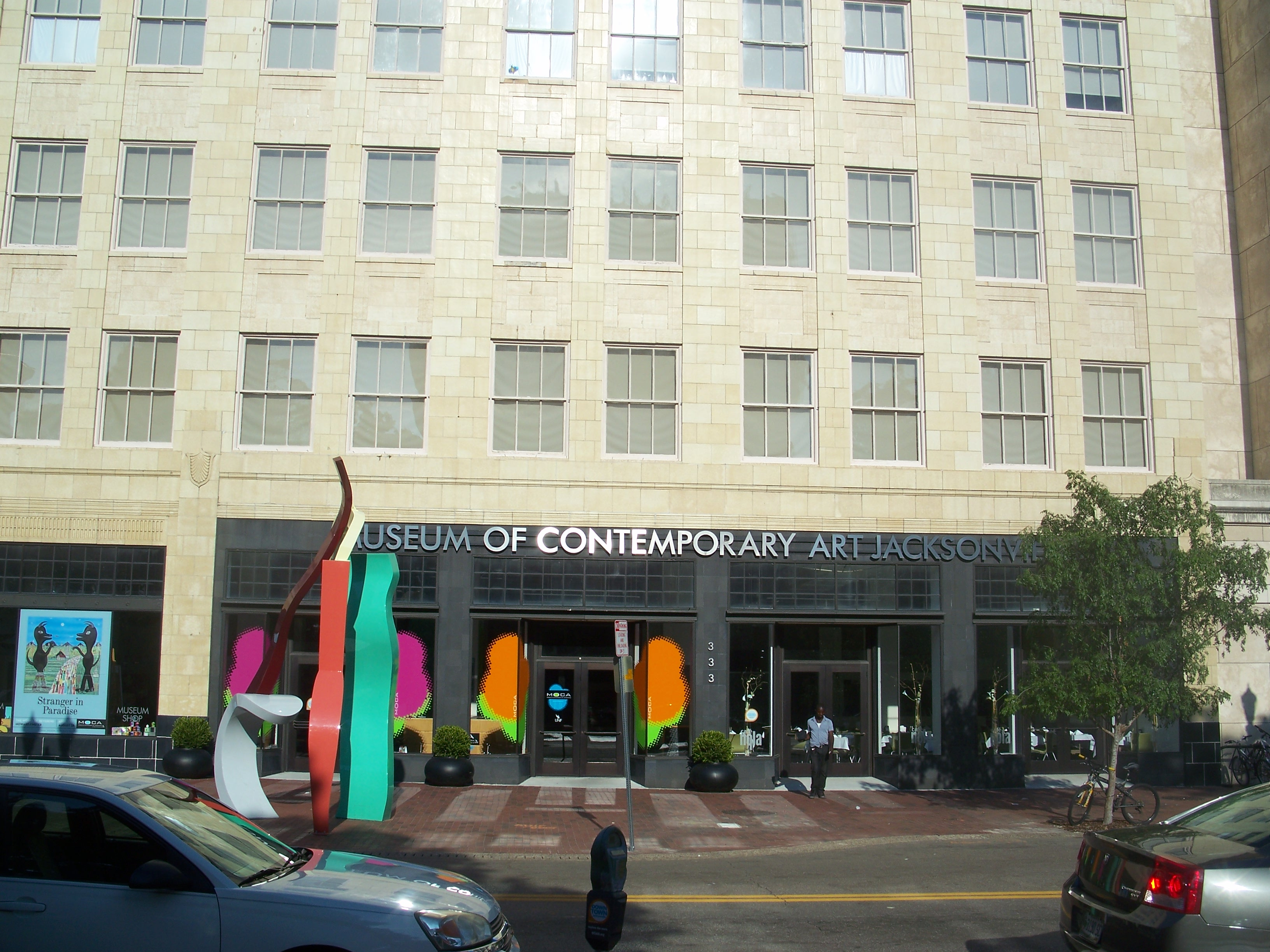 Jacksonville, Florida: Museum of Contemporary Art